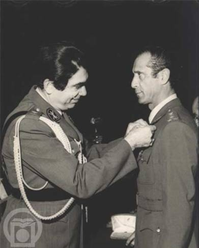 English